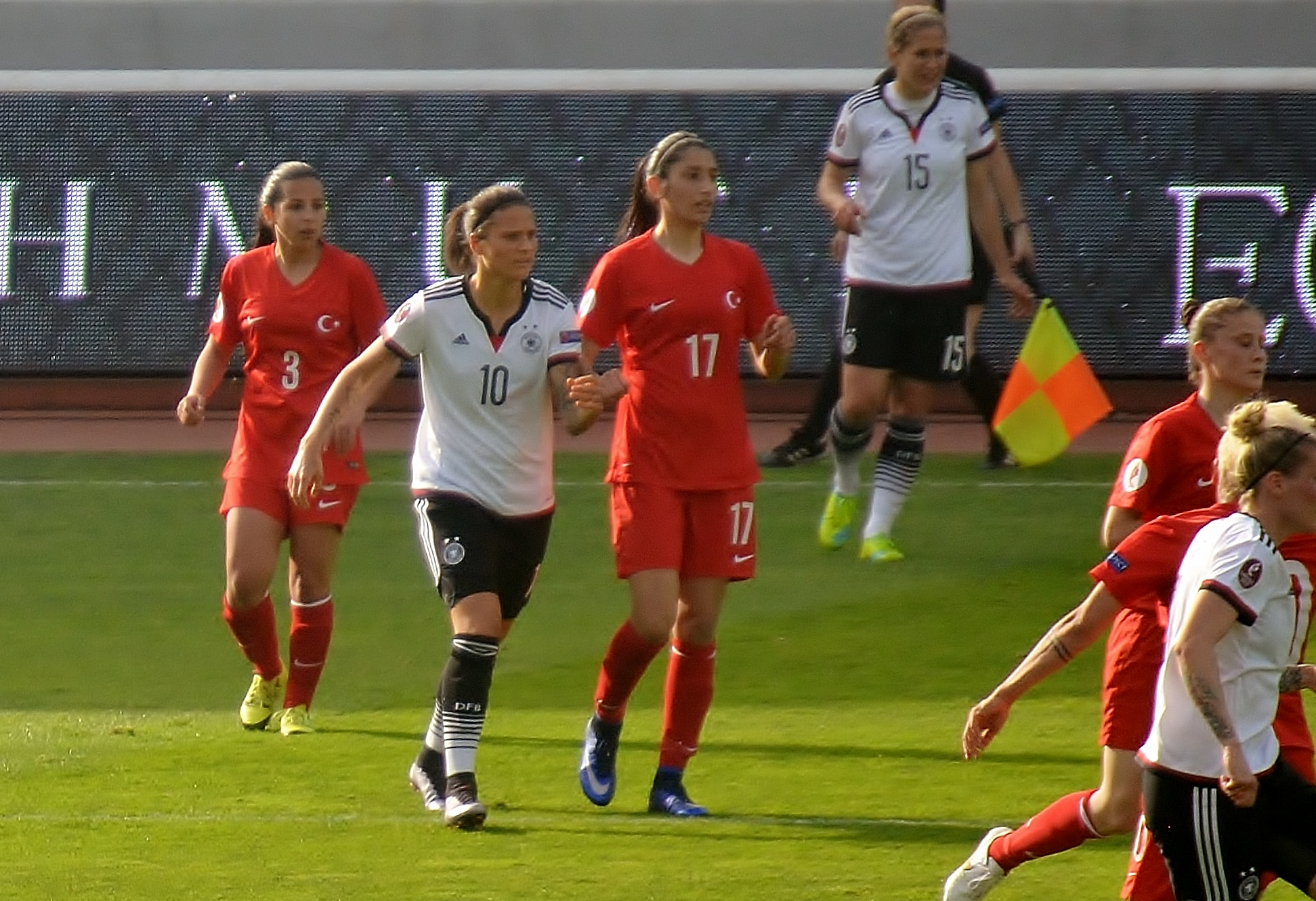 İpek Kaya playing for Turkey women's national at the UEFA Women's Euro 2017 qualifying Group 5 match against Gemany in Istanbul, Turkey